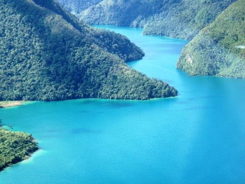 Laguna Yolnabaj, also "Laguna Brava",Huhuetenango, Guatemala.